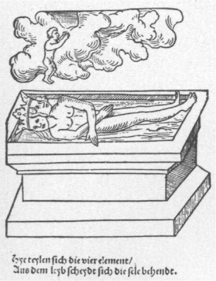 Image of the soul in the Rosarium philosphorum.